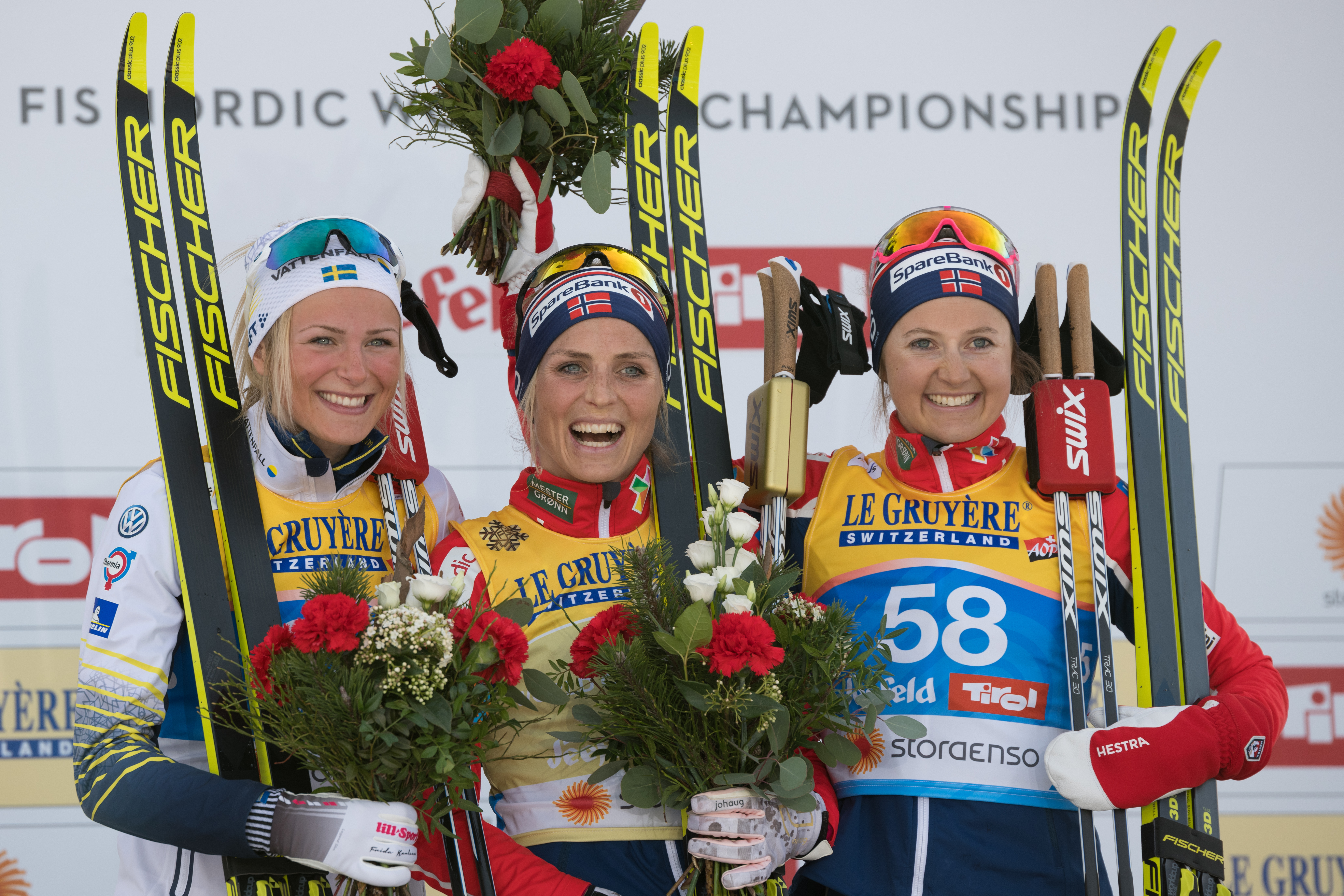 FIS Nordic Wolrd Ski Championships Seefeld 2019 - Ladies Cross Country 10km. Picture shows Frida Karlsson (SWE), Therese Johaug (NOR),Ingvild Flugstad Østberg (NOR)